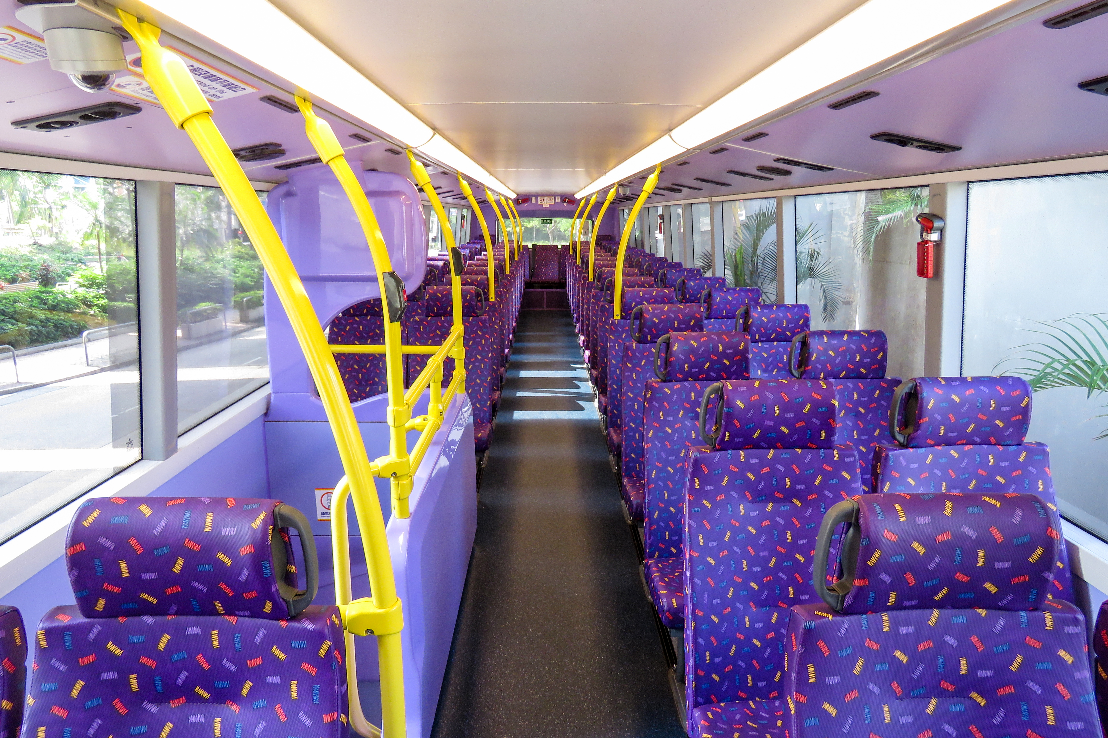 Taken as Route 8 was approaching Heng Fa Chuen terminus.